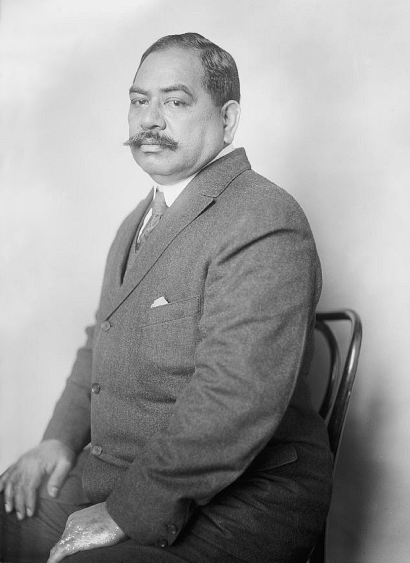 Jonah Kūhiō Kalaniana'ole, congressional delegate from Hawaii Territory